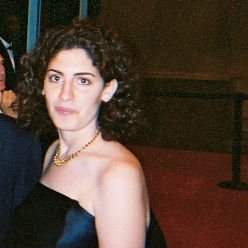 Red Carpet: Palestinian actress Reem Abu Sbaih, Composer Kamran Rastegar, and Writer-Director Annemarie Jacir at Cannes International Film Festival 2003 for World Premiere of like twenty impossibles